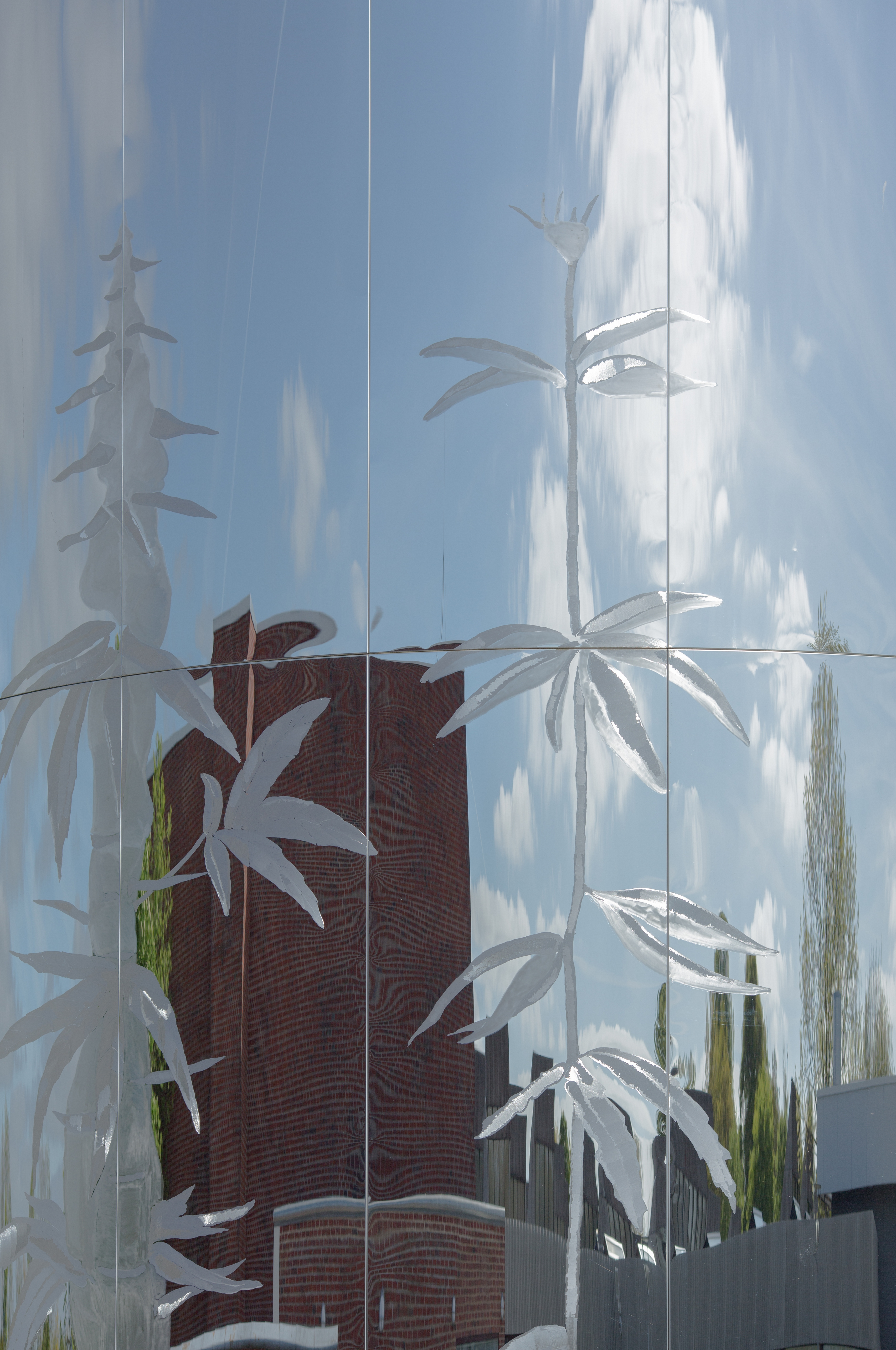 Reflection in a cylindrical piece of art at Langkær Gymnasium